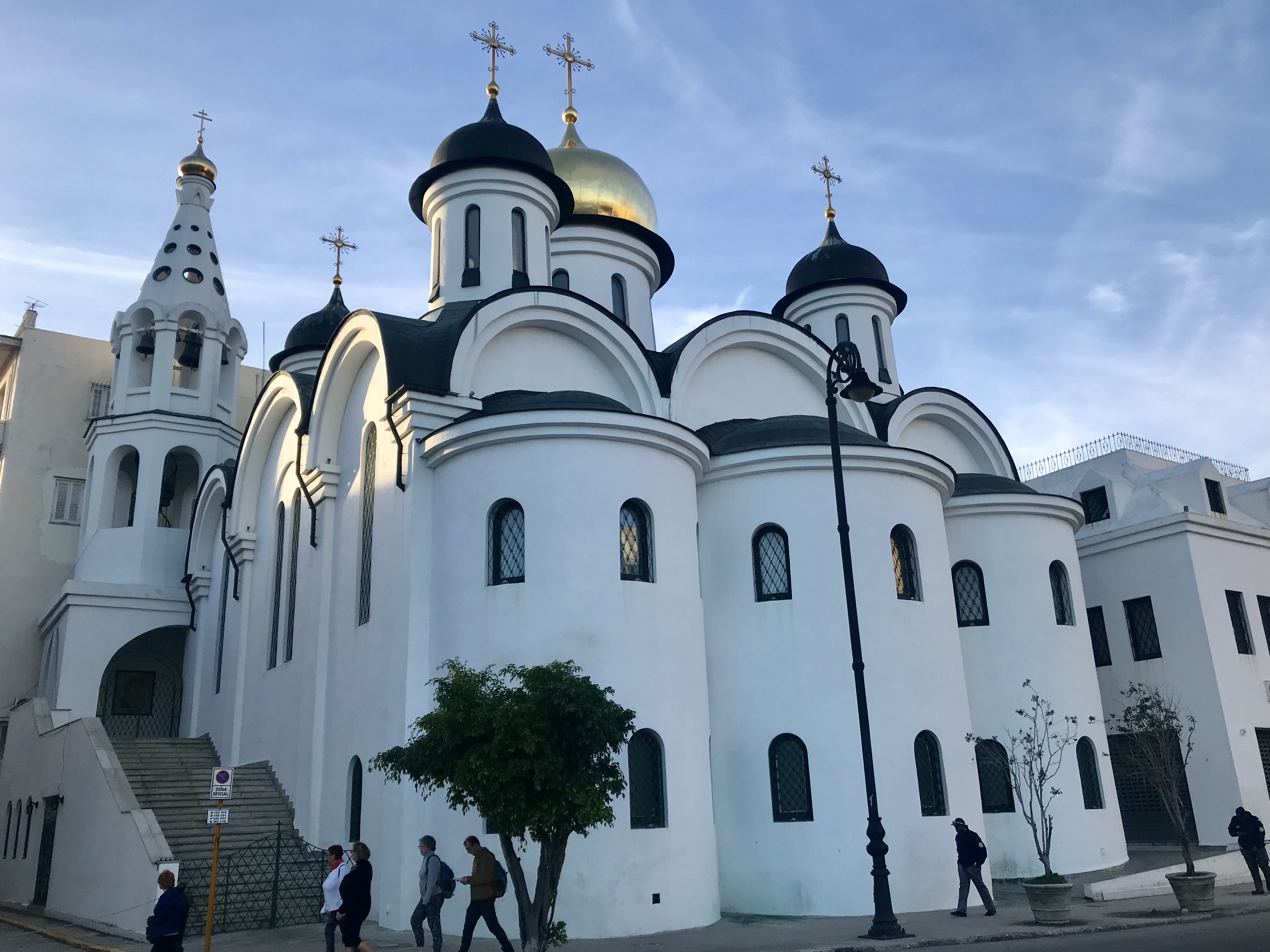 Our Lady of Kazan Cathedral Havana, Cuba